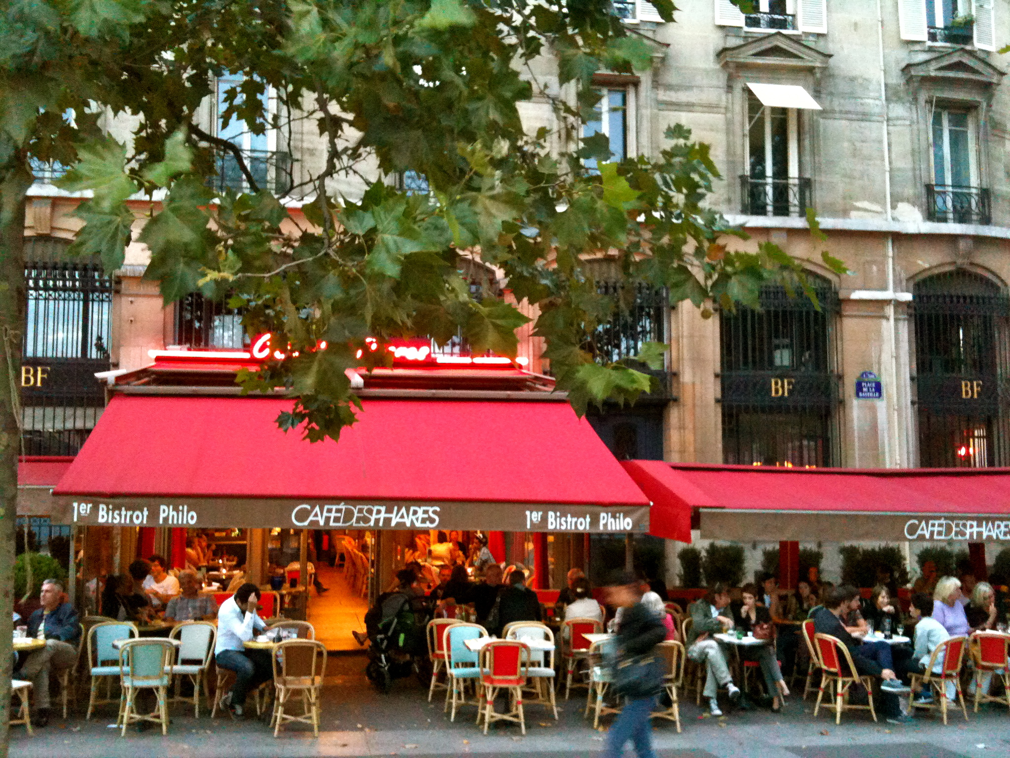 "Café des Phares" seen from the centre of the Place de la Bastille, Paris.